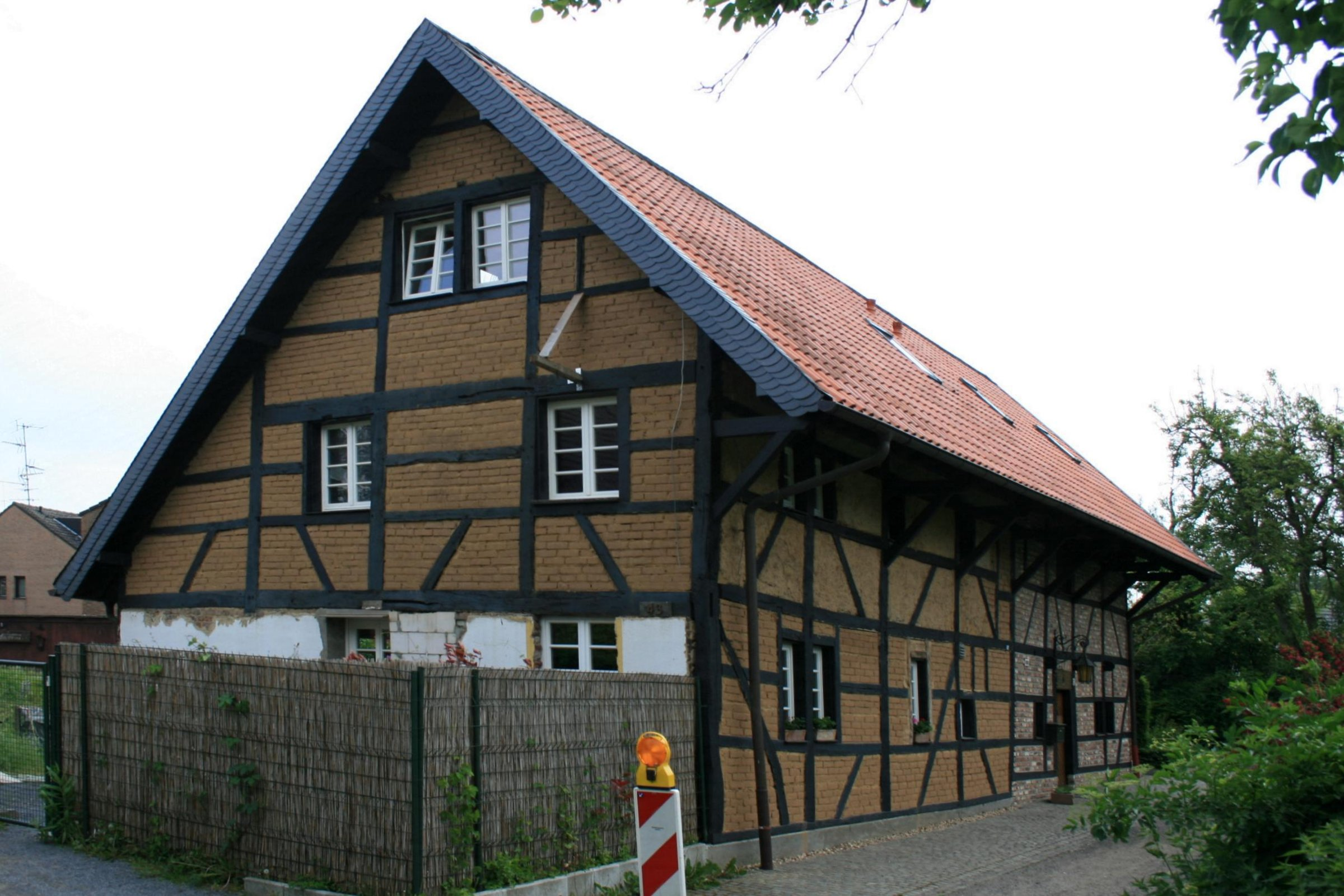 Cultural heritage monument No. A 028 in Mönchengladbach